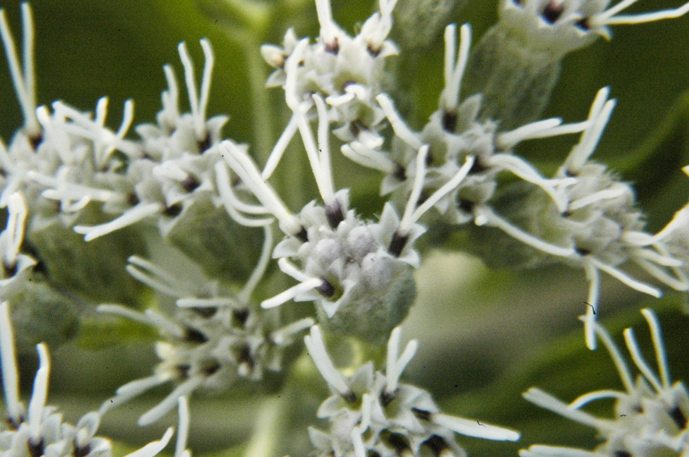 Eupatorium serotinum, James Woodworth Prairie Preserve, Glenview, IL, USA